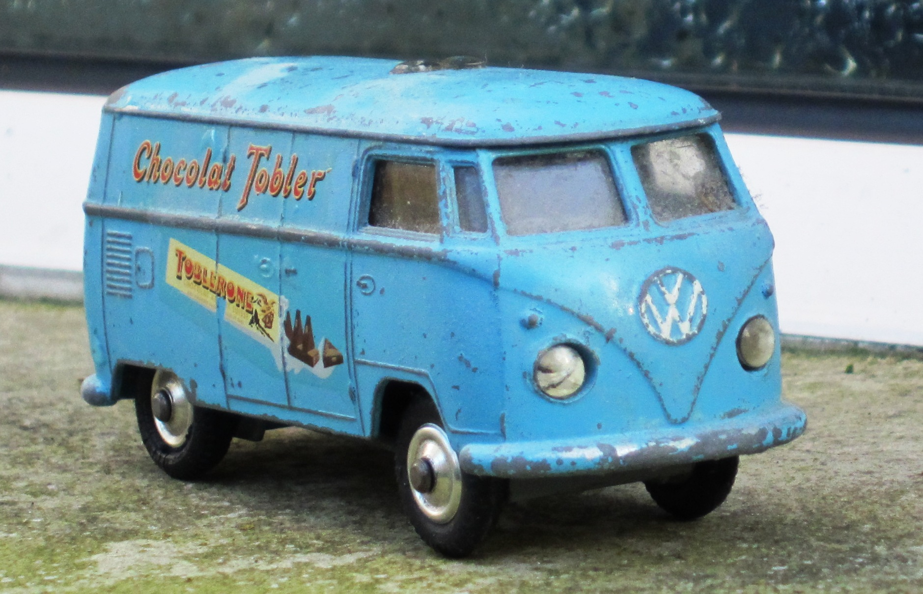 Volkswagen Type 2 advertising Toblerone produced by Corgi Toys in approximately 1965